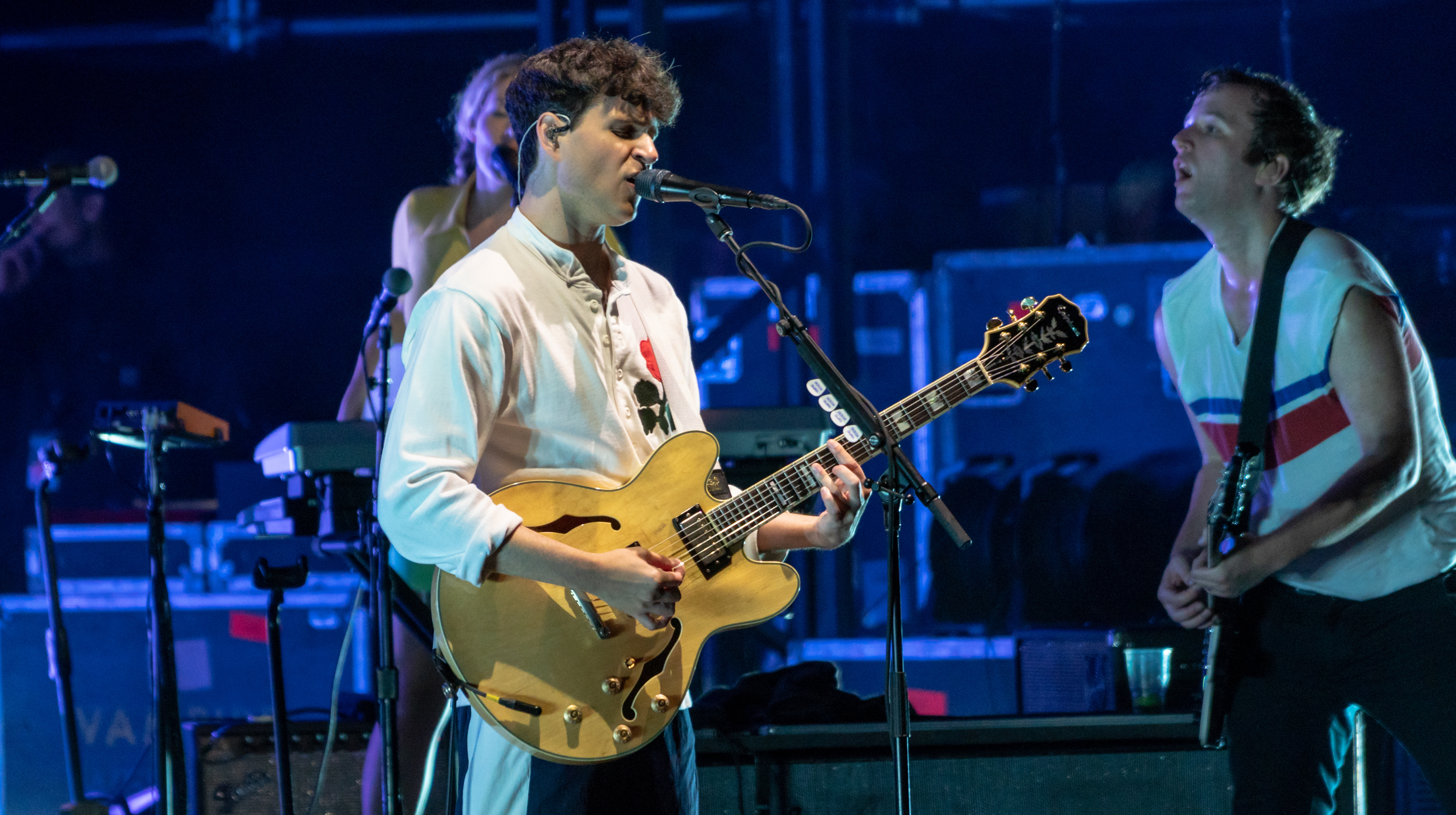 Vampire Weekend performing at the 2018 End of the Road Festival in Larmer Tree Gardens, England